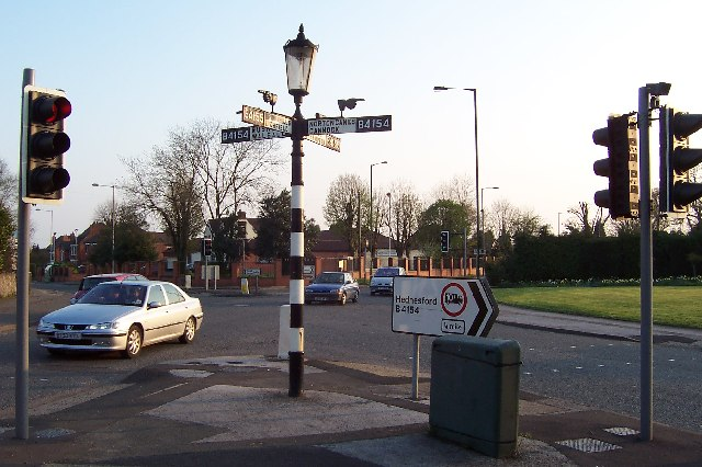 The Fingerpost. A well-known landmark at the top end of Pelsall, at the junction of the A4124 and B4154.